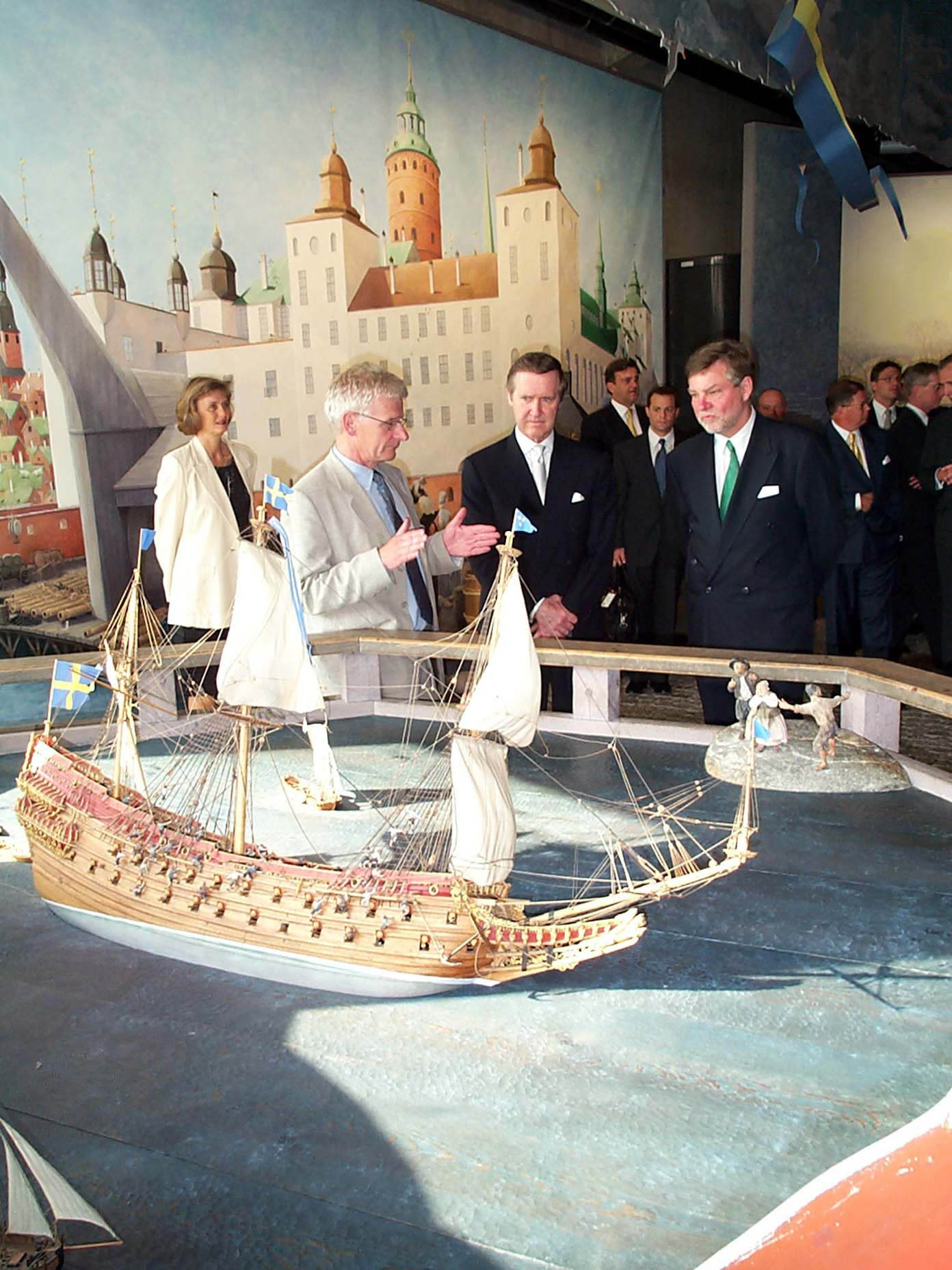 Vasa Museum Director Klas Helmerson uses models to point out aspects of the sinking of the Swedish ship Vasa in 1628 to Defense Secretary William S. Cohen and Swedish Defense Minister Bjorn von Sydow. Cohen visited Sweden June 12 as part of a European trip